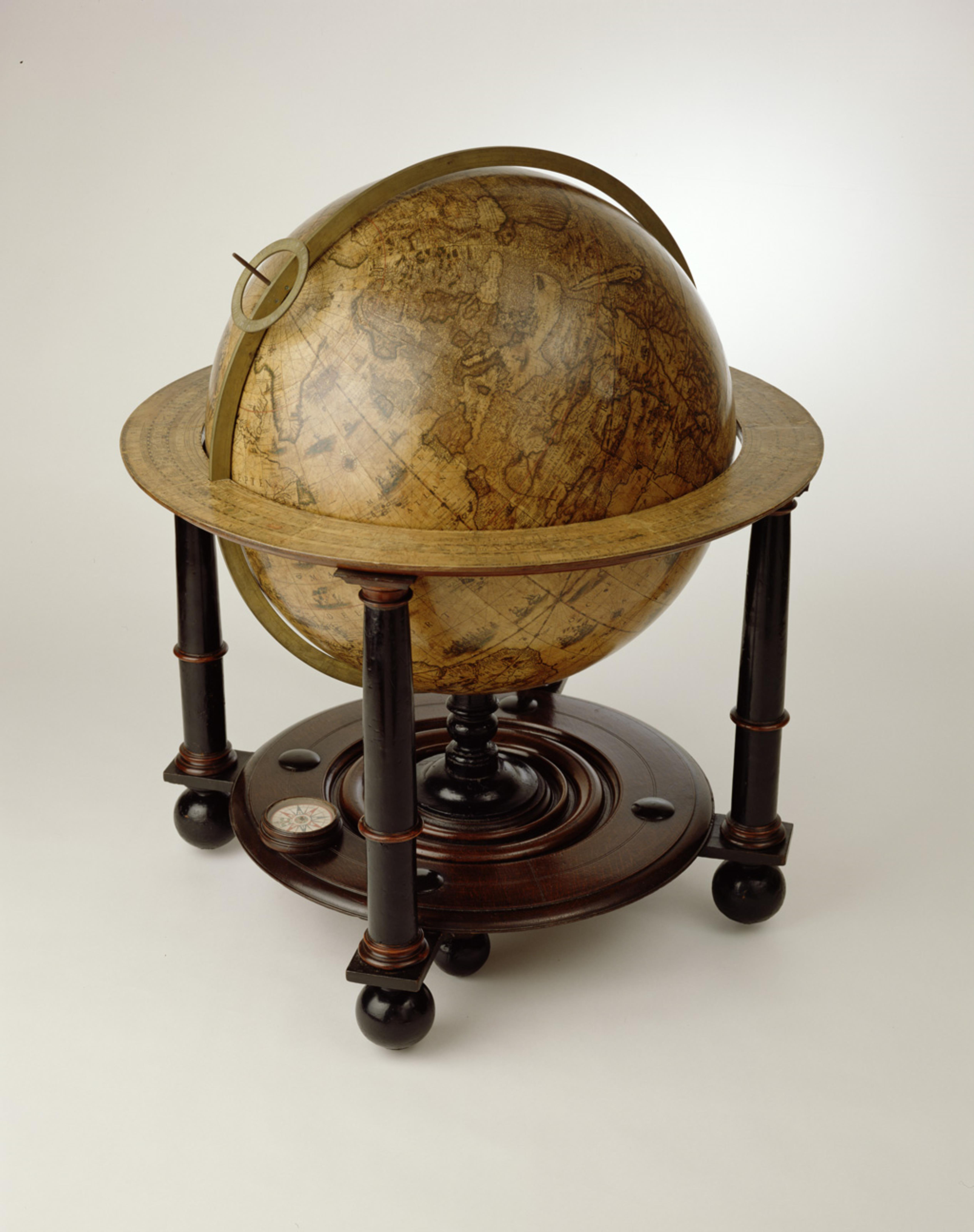 Globe by Joan Blaeu